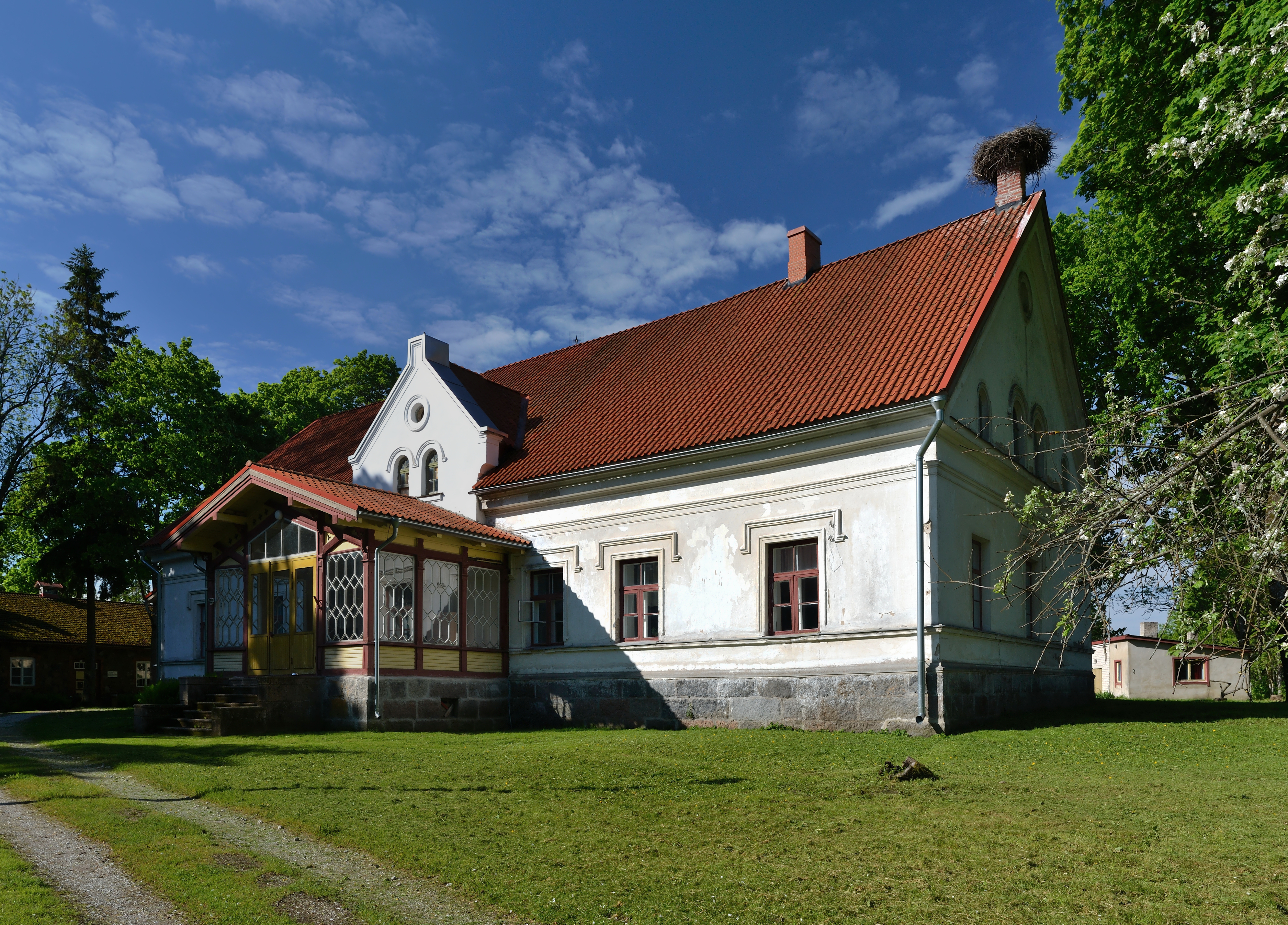 Undla manor main building